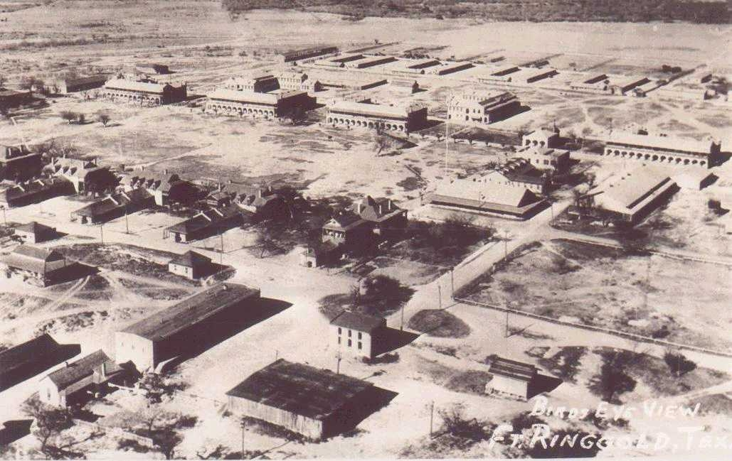 Fort Ringglod